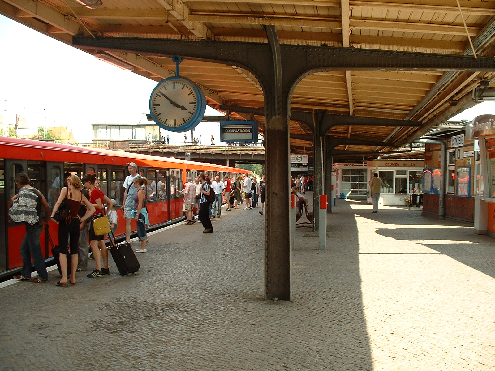 Platform D at the Berlin S-Bahn station Ostkreuz. This view is looking eastward along Platform D, with Platform F visible above the train.